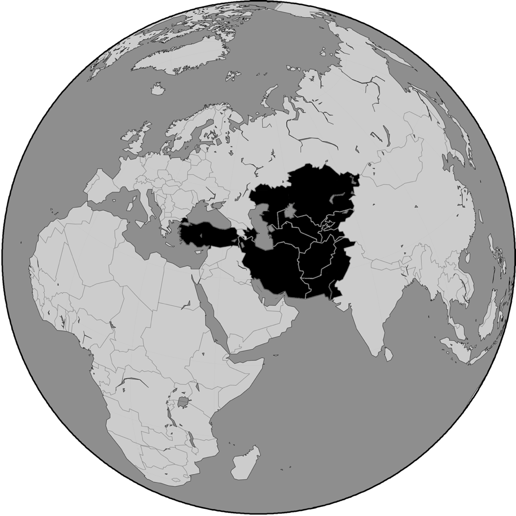 Economic Cooperation Organization members